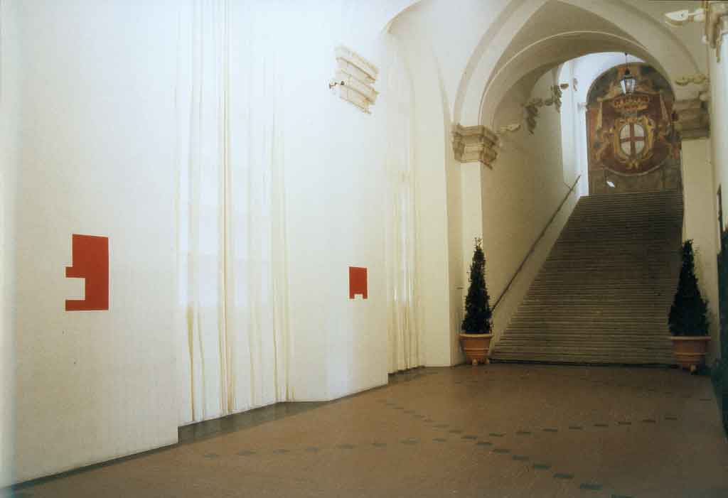 Exposición individual, Palazzo Ducale, Génova 2001